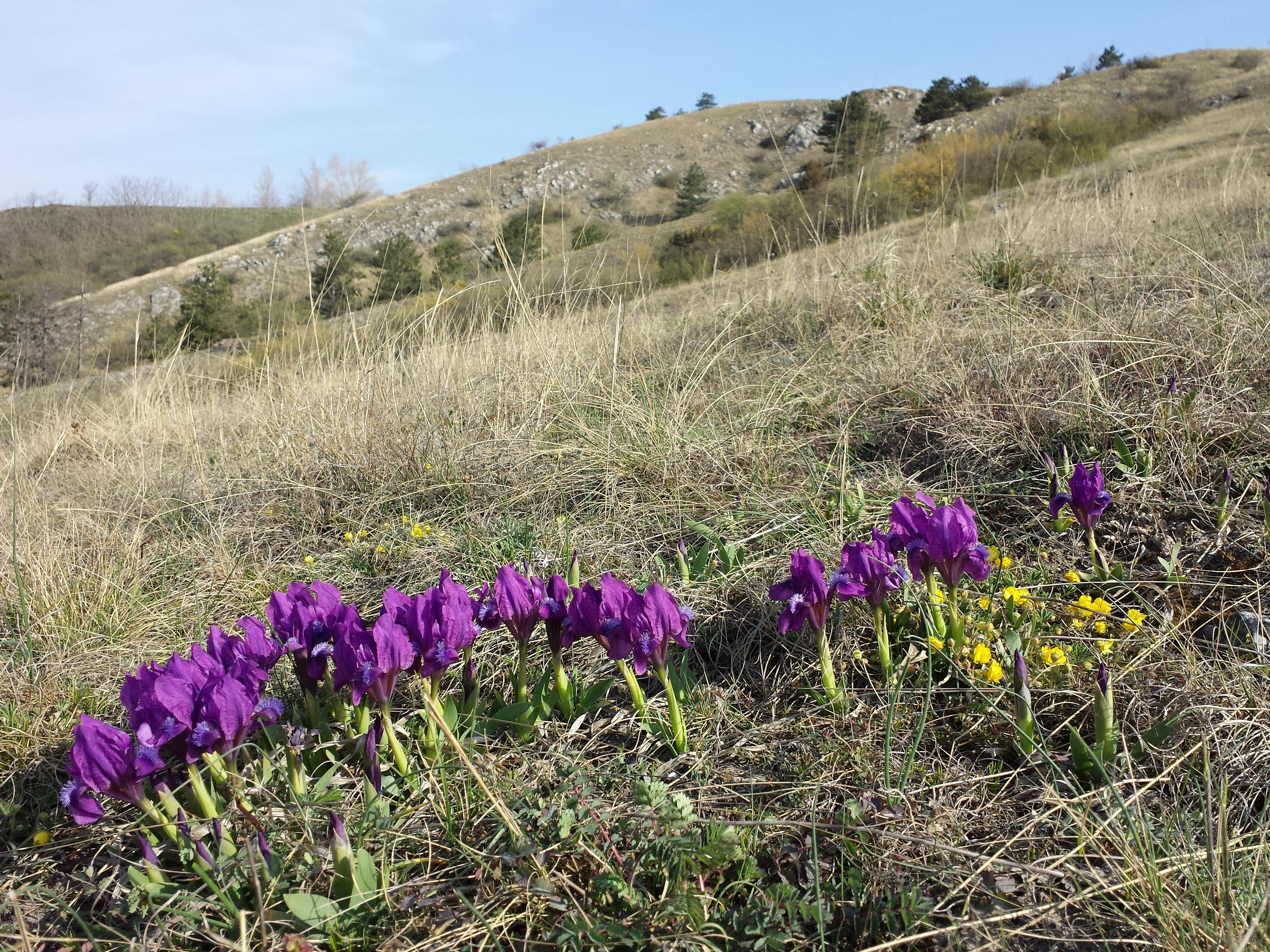 Habitus Taxonym: Iris pumila ss Fischer et al. EfÖLS 2008 ISBN 978-3-85474-187-9 Location: Pfaffenberg (Hundsheimer Berge), district Bruck an der Leitha, Lower Austria - ca. 250 m a.s.l. Habitat: rock steppe